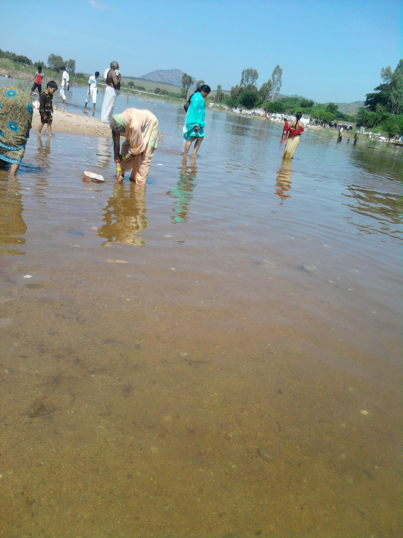 river citraavati at puttaparti